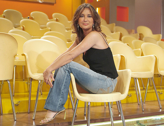 Spanish TV presenter Patricia Gaztañaga.